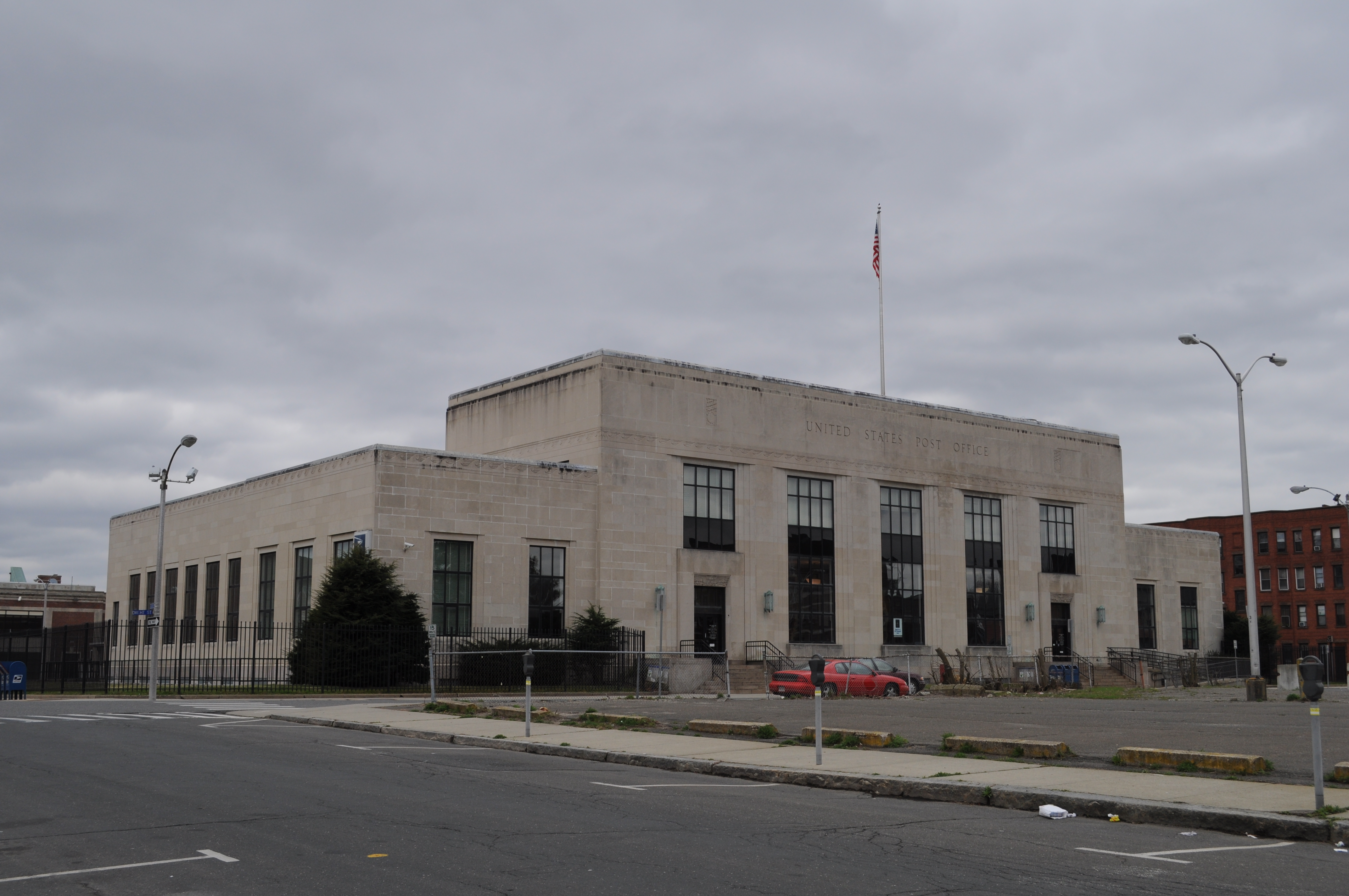 Central post office, Holyoke, Massachusetts, USA.